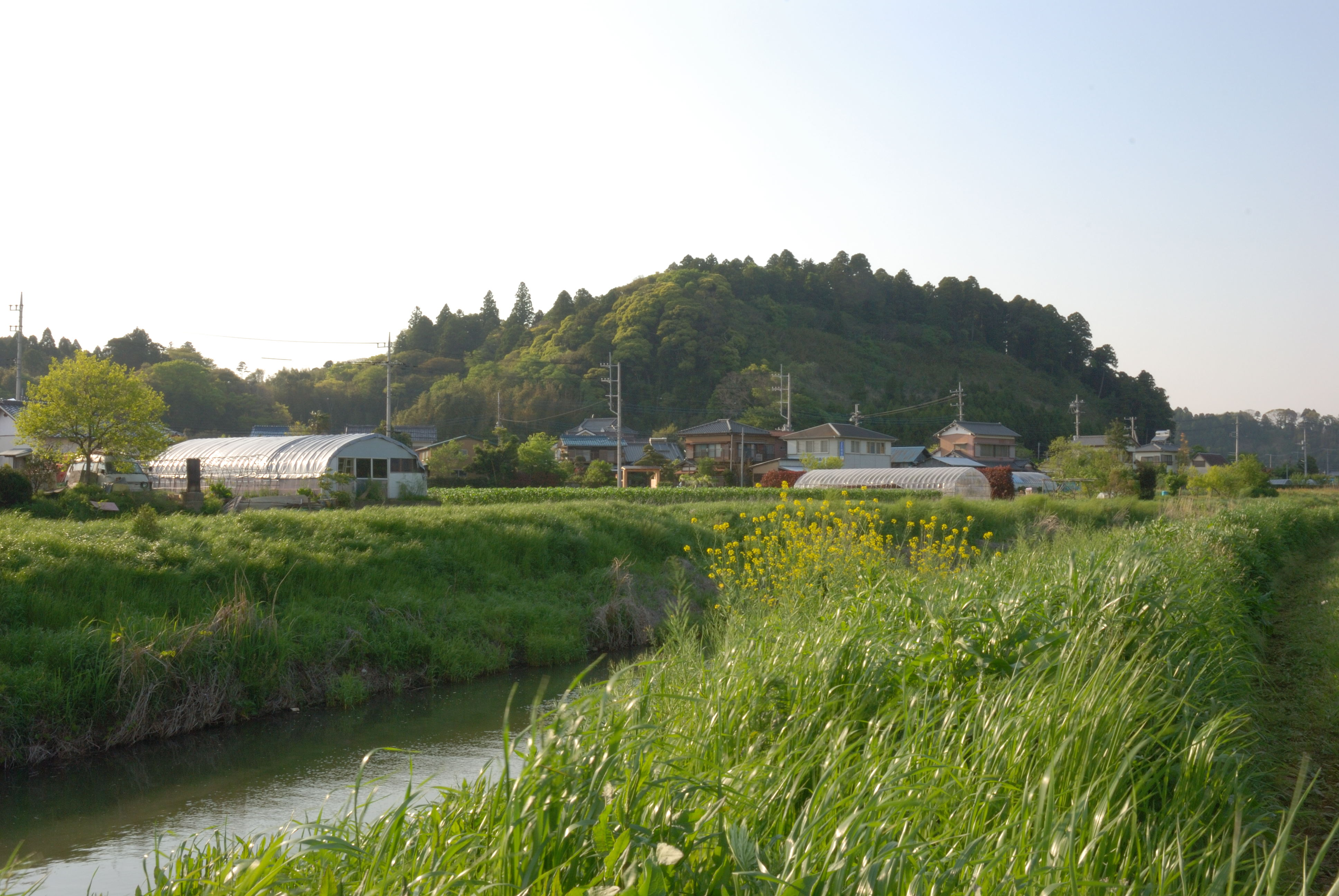 Tsube castle